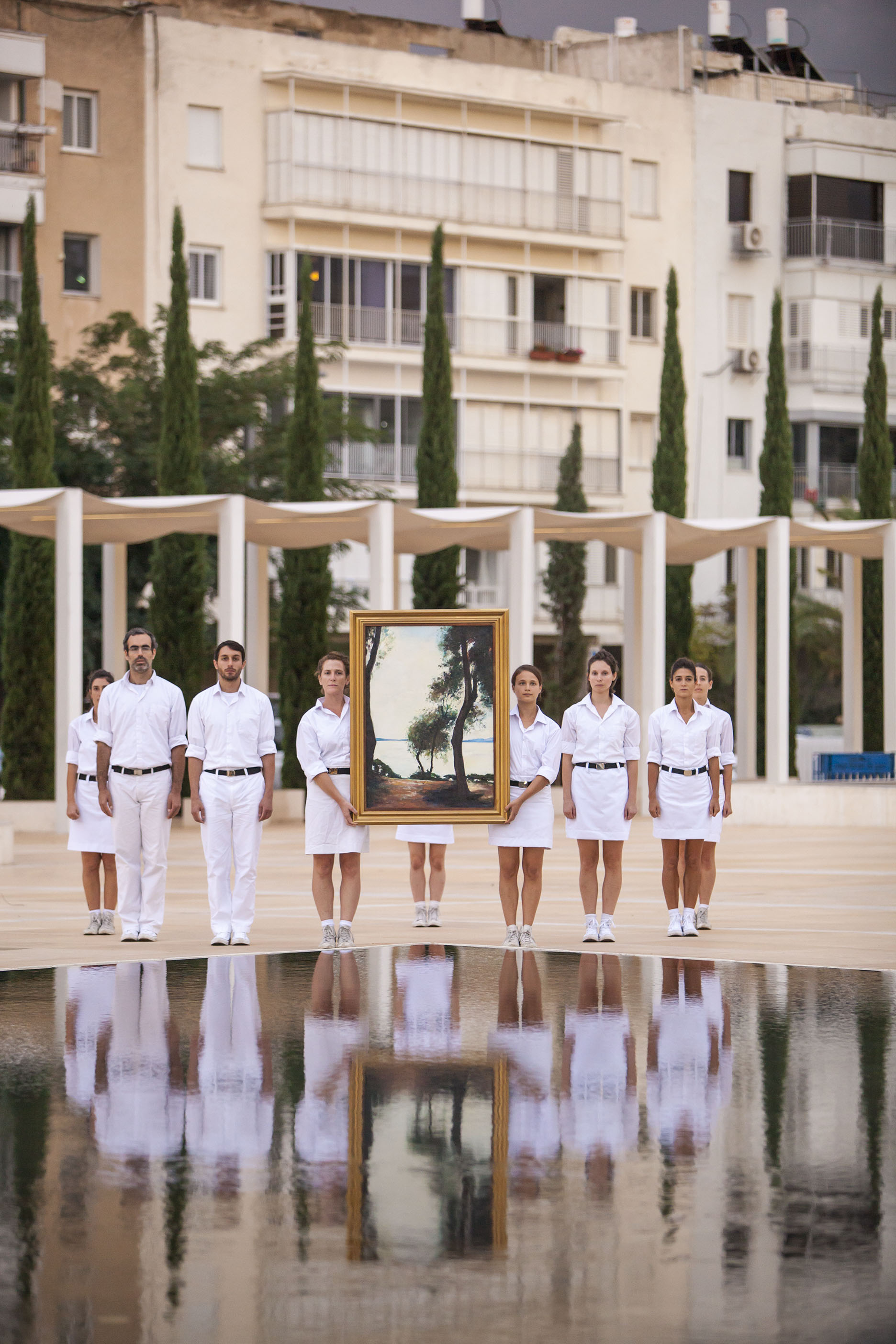 National Collection was Public Movement's durational solo exhibition, performed in the Tel Aviv Museum of Art in 2015 and curated by Ruti Direktor